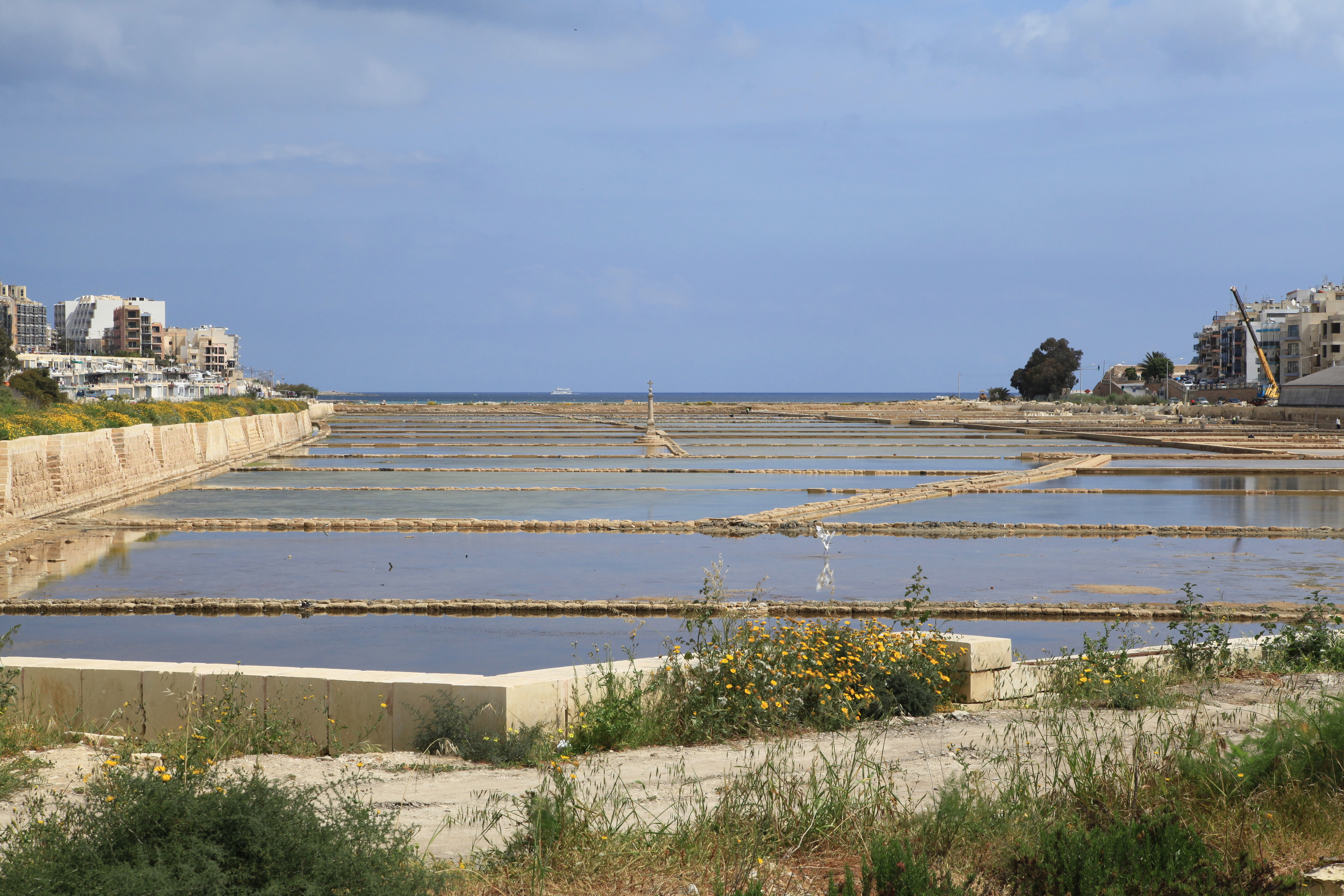 Salina Salt Pans at Triq is-Salini in St. Paul's Bay, Malta